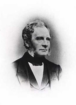 Christian Adolph Meyer (1803-1878), Danish supreme court judge